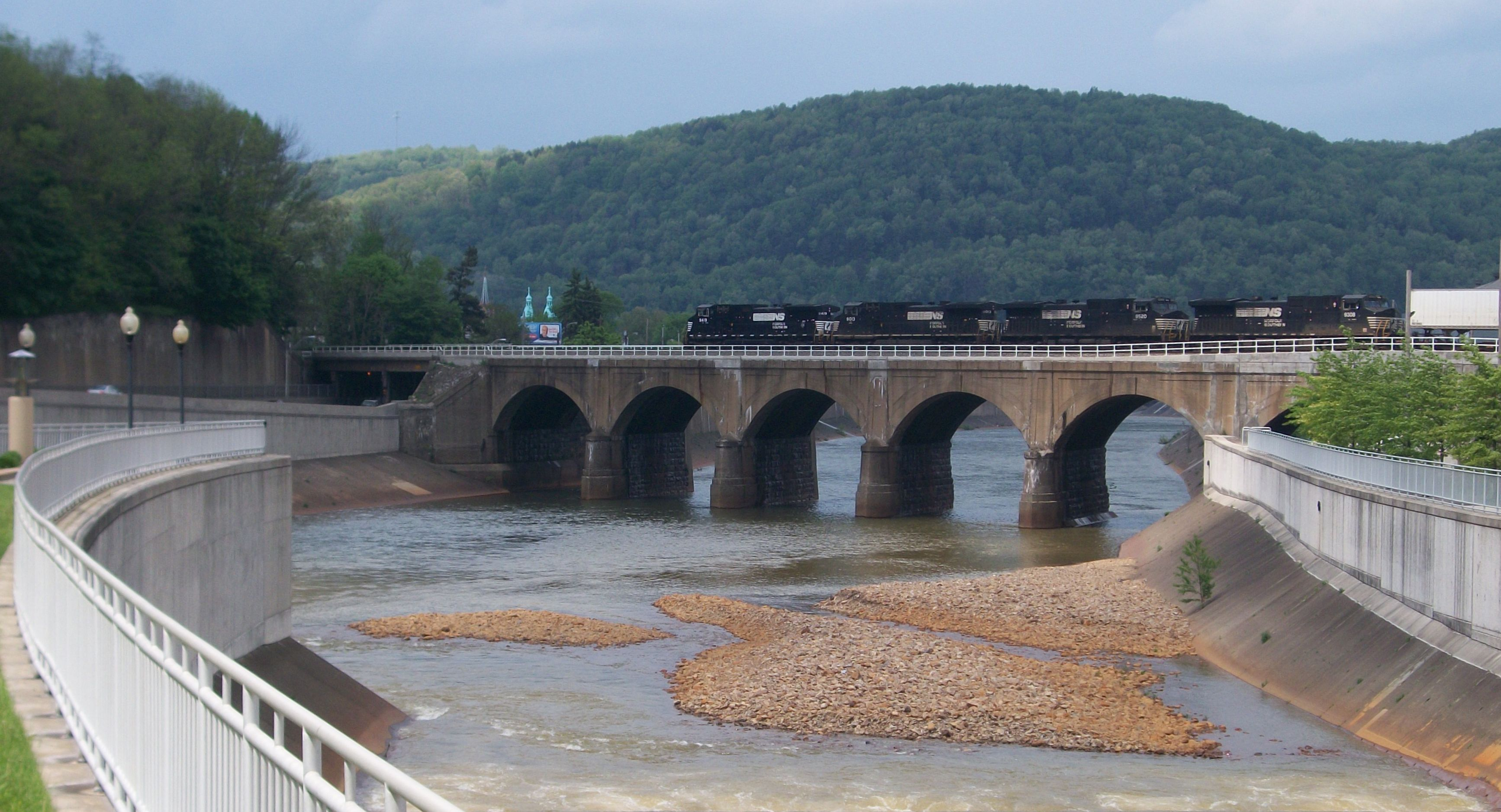 The Stone Bridge in Johnstown, Pennsylvania. This bridge stood against the great Johnstown flood. Taken May 14, 2010.